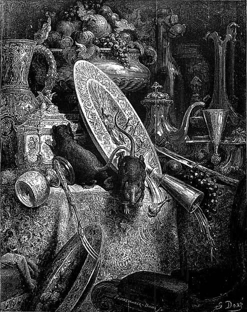 La gravure du Fable "Le rat de ville et le rat des champs" par Gustave Doré